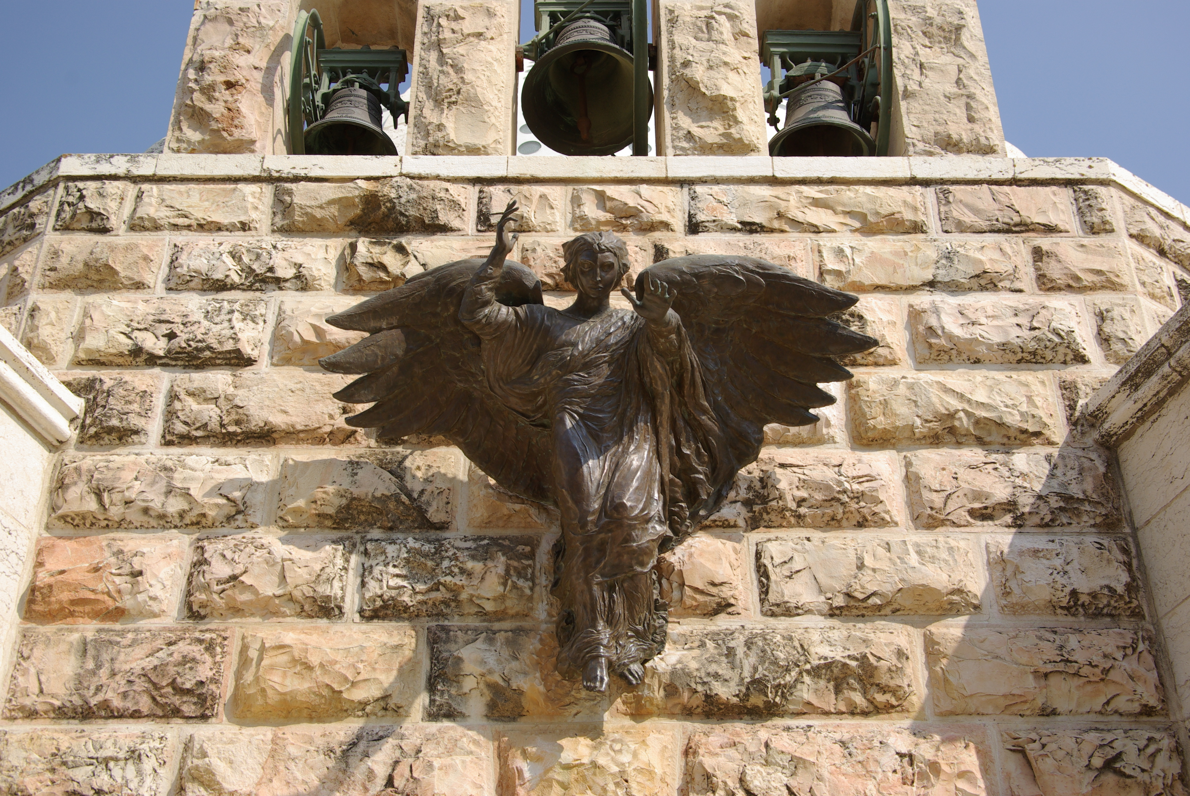 Bethlehem, Shepherds Field Chapel